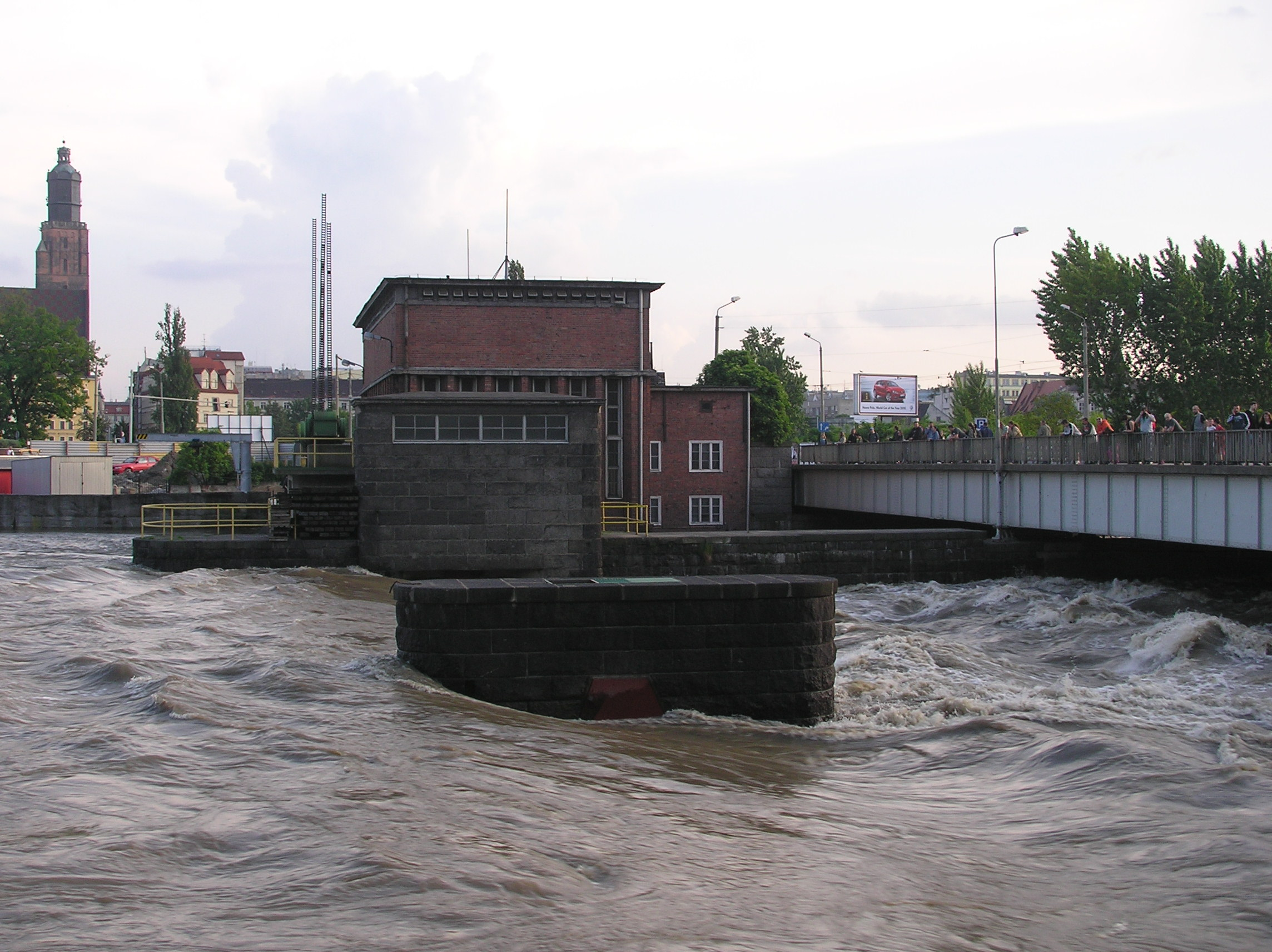 Wrocław, weir of northern hydroelectric plant in Wrocław, Northern Pomorski Bridge